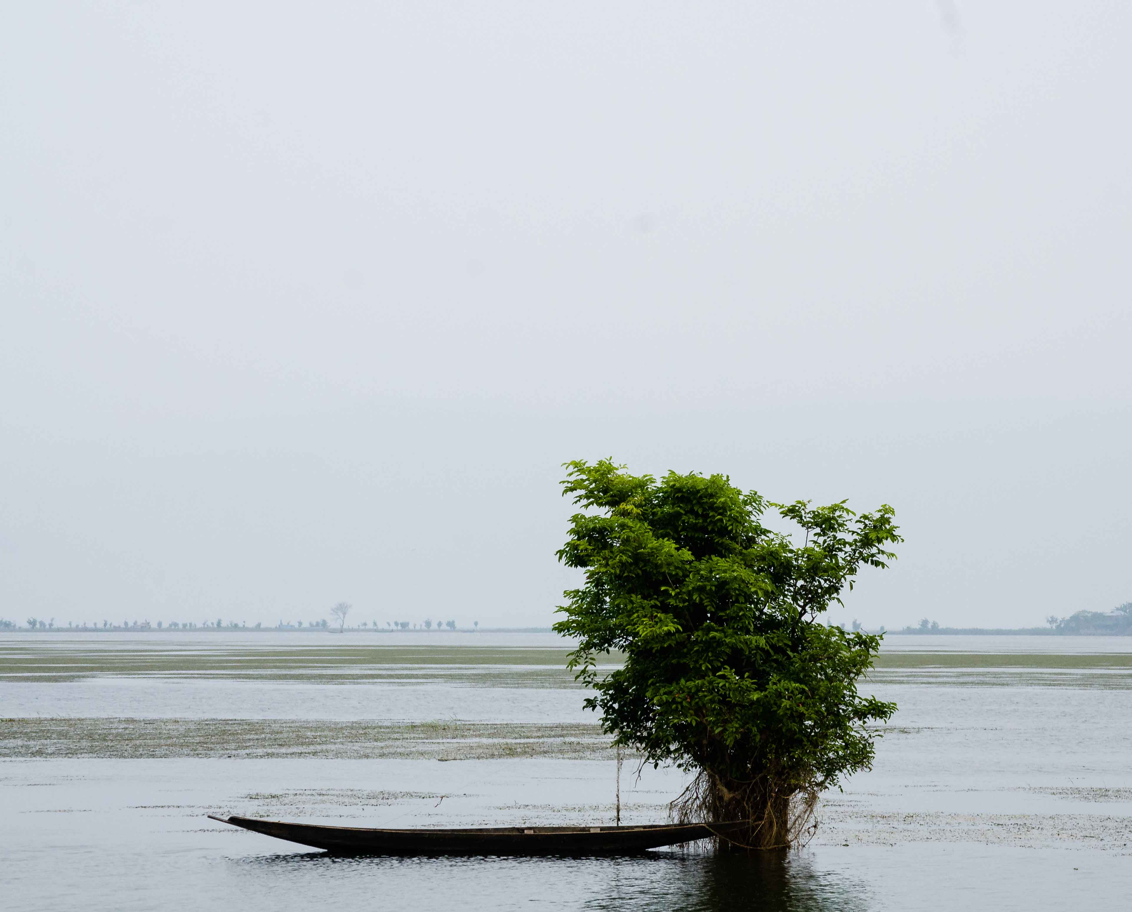 Tanguar Haor, Sunamganj, Bangladesh. One of the largest waterlands in the country and one of the most spectacular places to visit.